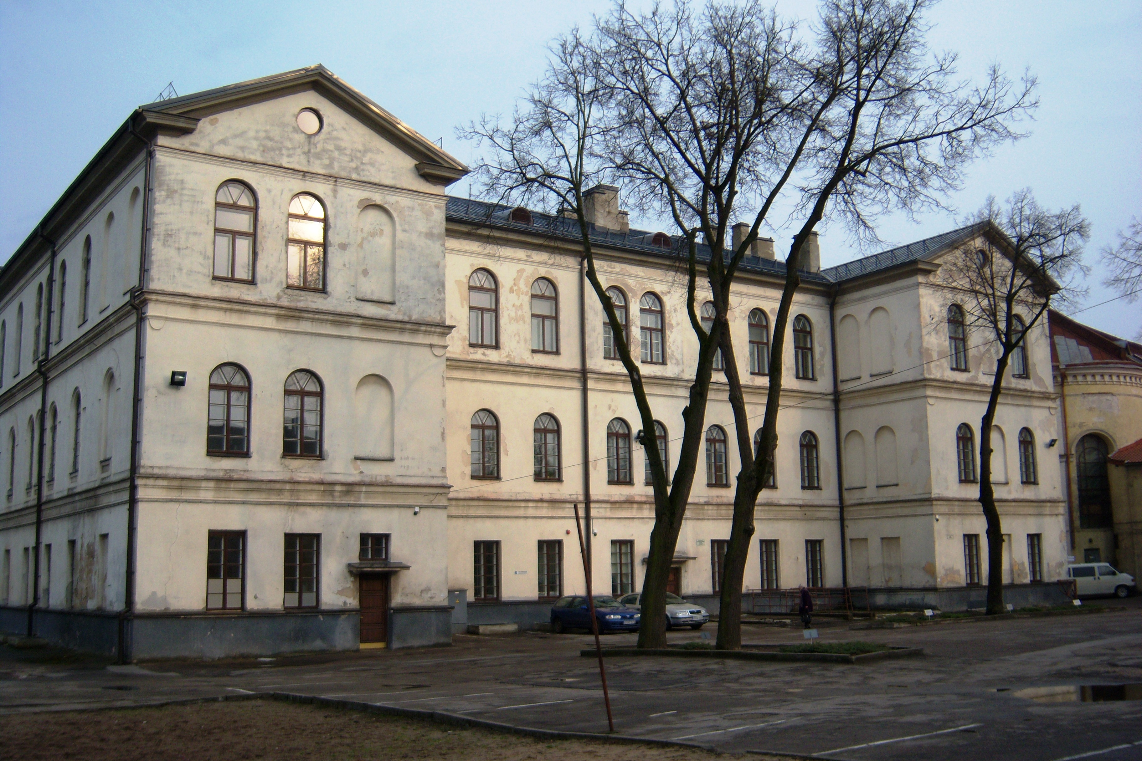 Maironis Academic Gymnasium, Kaunas, Lithuania